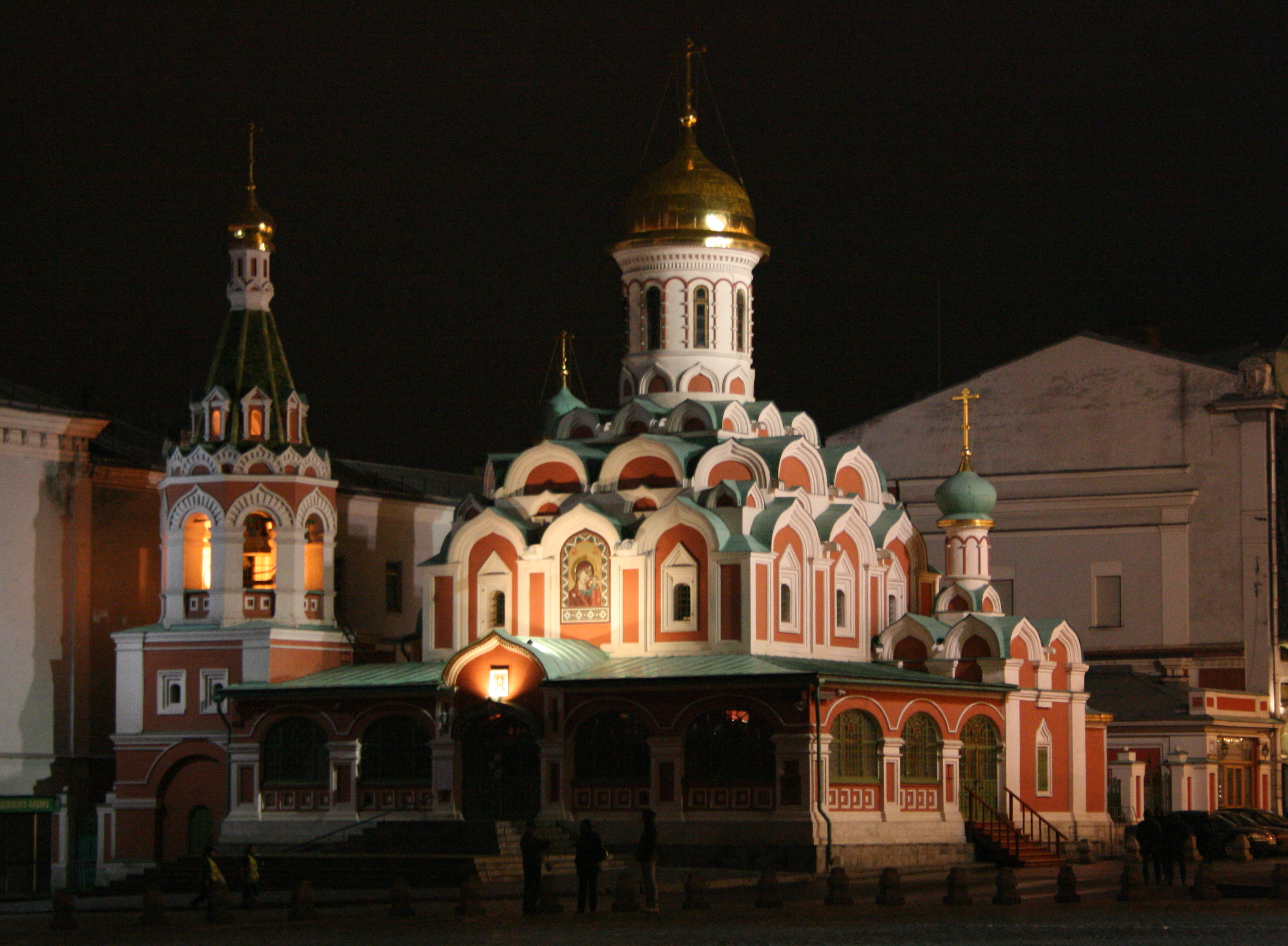 Kazan Cathedral in Moscow (Red Square) in the night